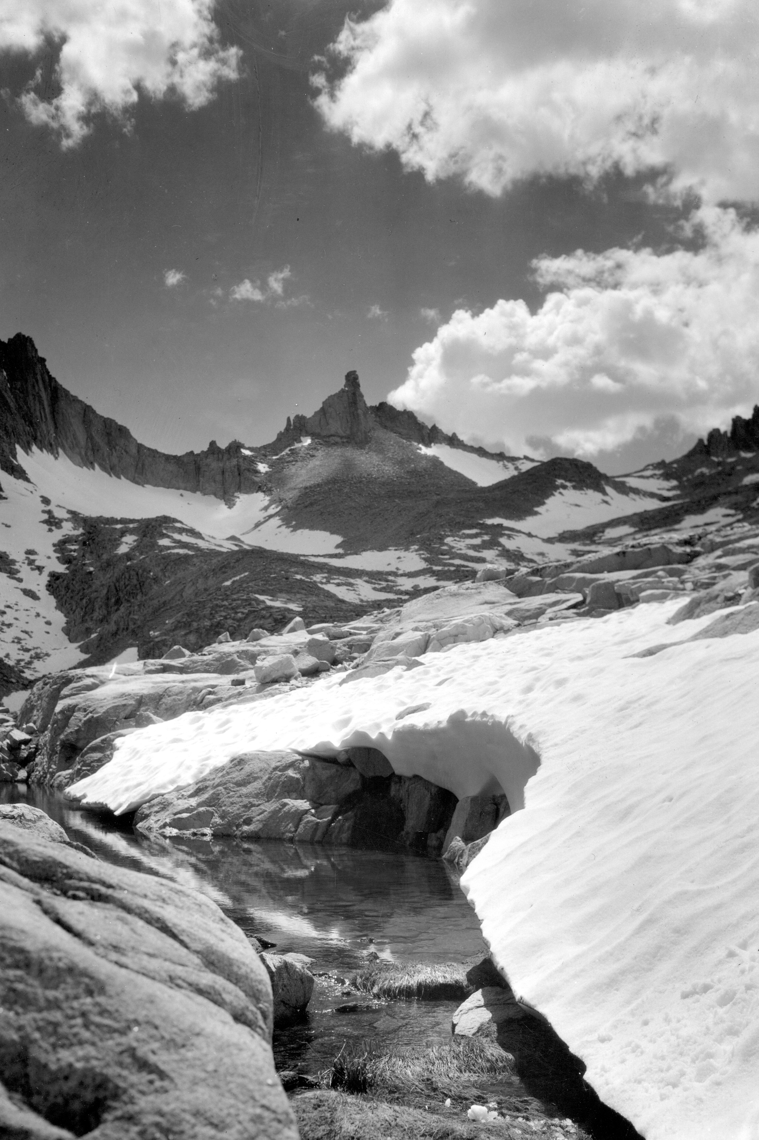 Sequoia National Park, California. Milestone Mountain. Photograph by W.L. Huber, July 26, 1932.